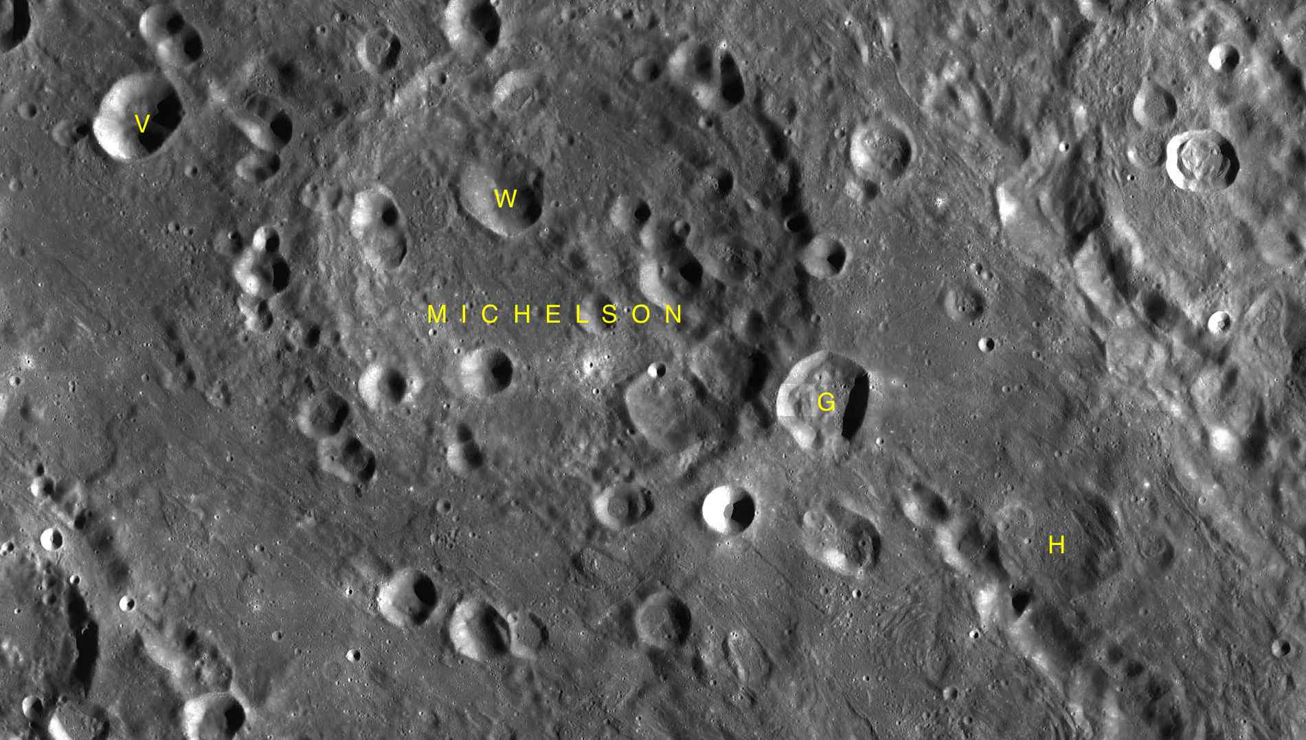 Part of the chart LAC-71 used for the presentation